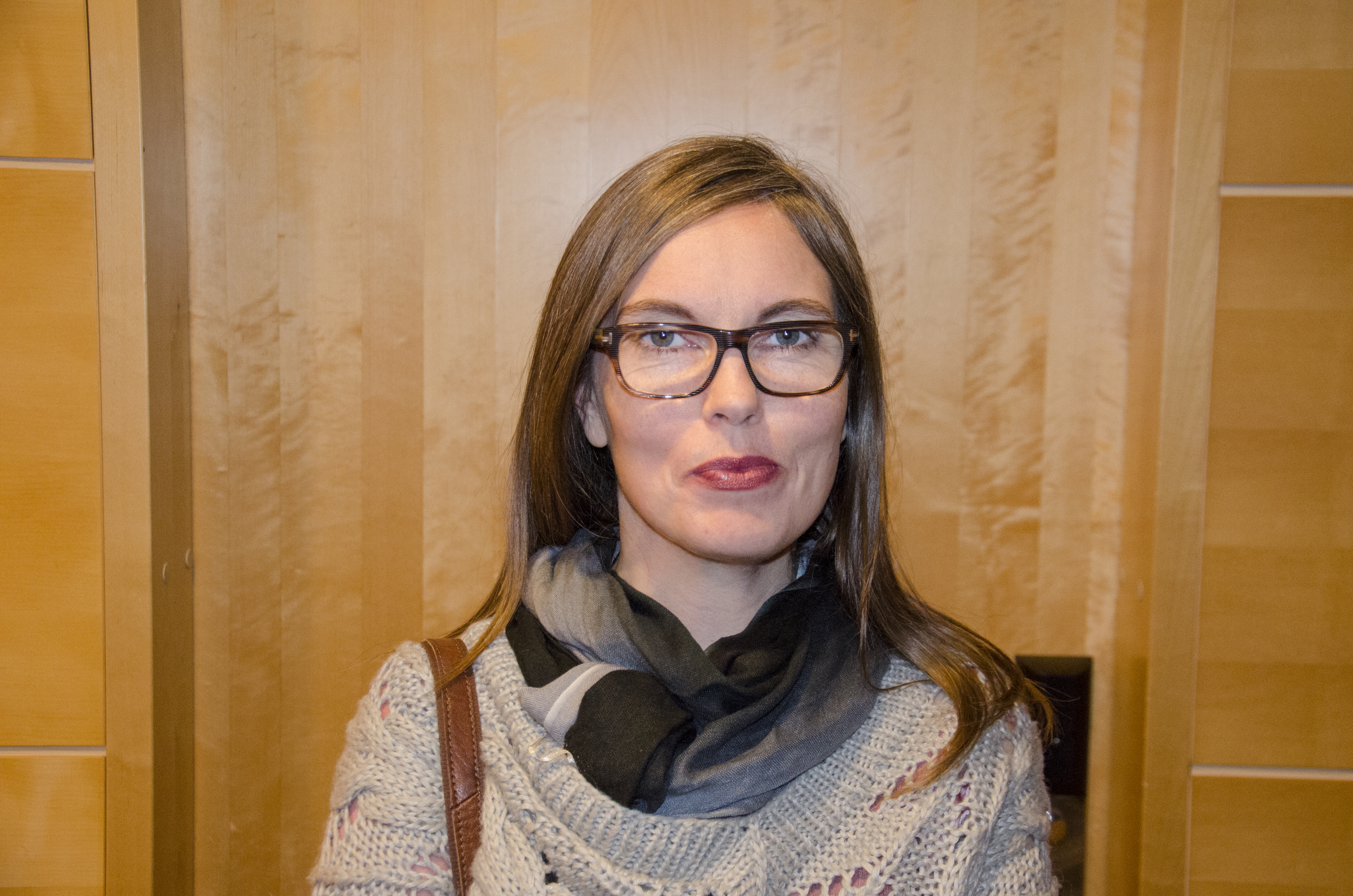 Sigurbjörg Þrastardóttir at the Gothenburg Book Fair 2015.